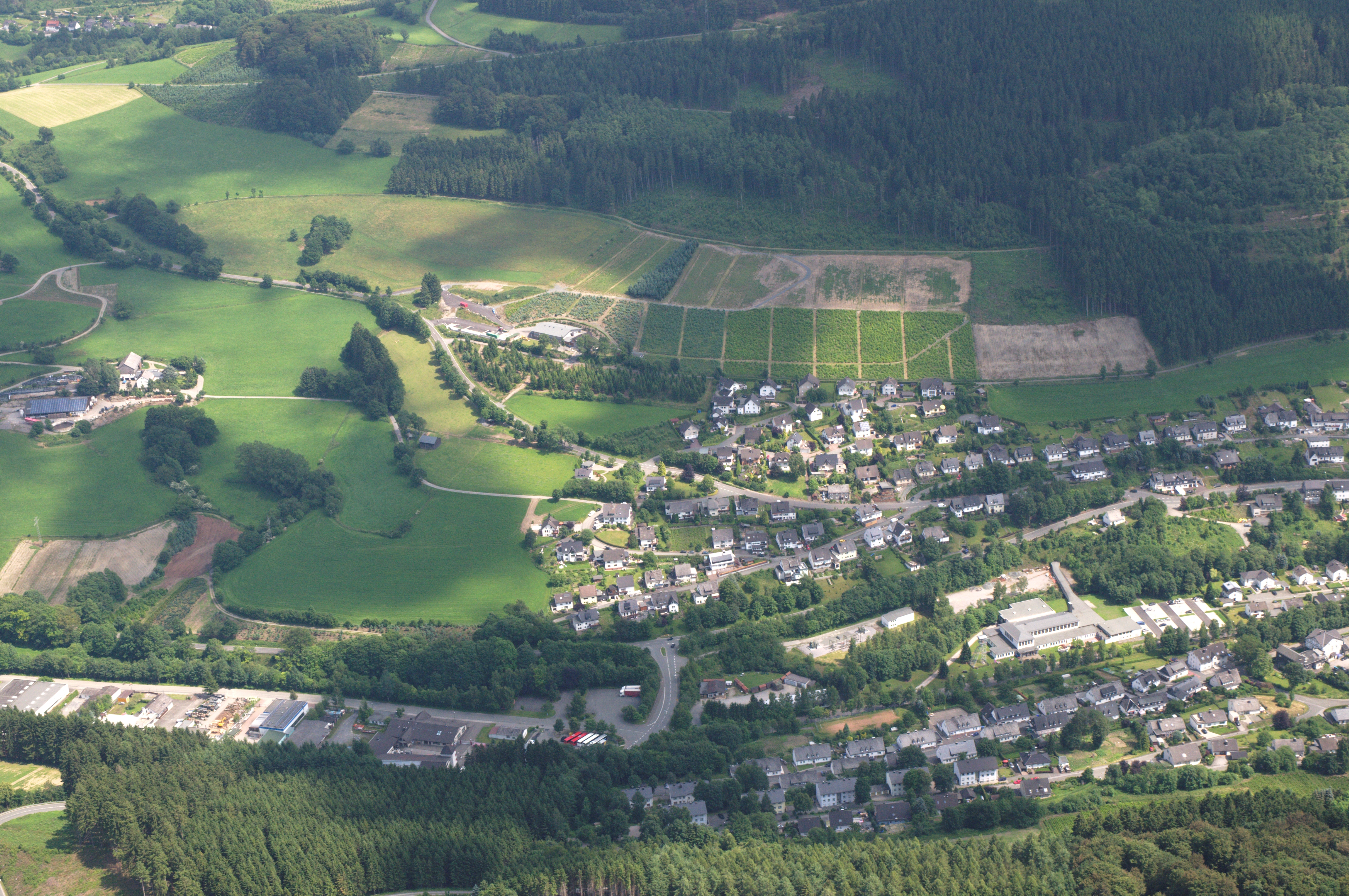 Fotoflug Sauerland-Ost: Ramsbeck The making of this document was supported by the Community-Budget of Wikimedia Germany.